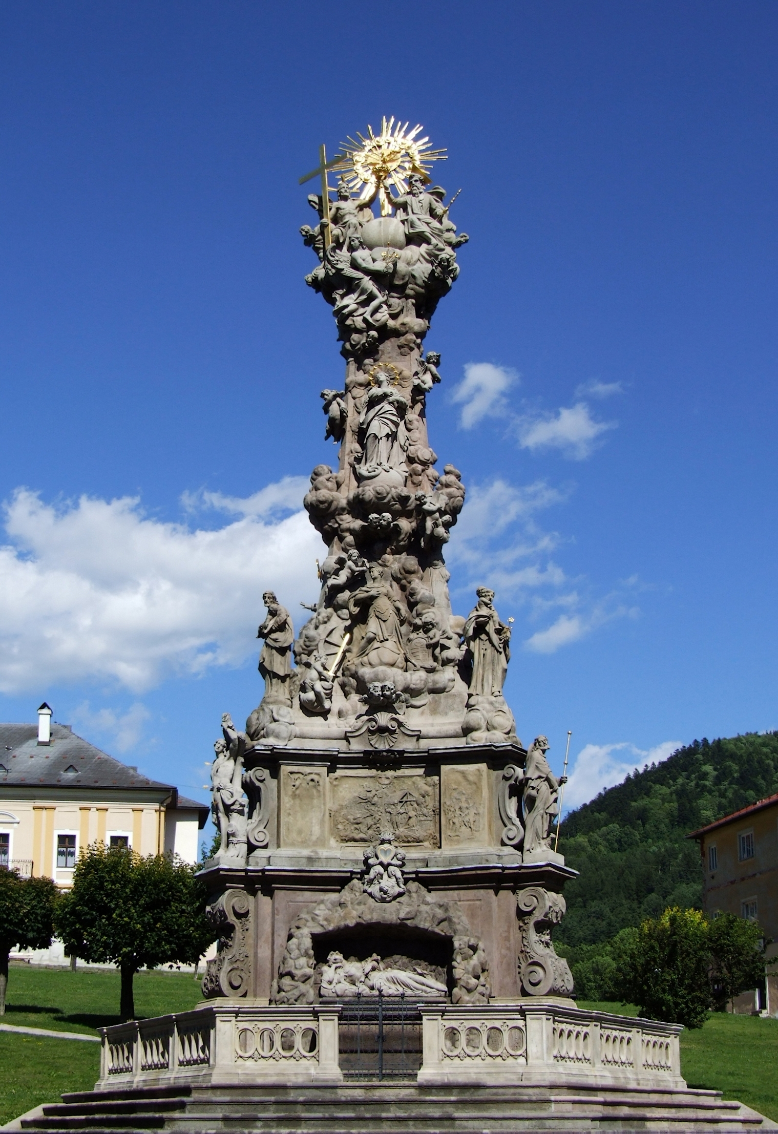 Kremnica (Kremnitz, Körmöcbánya) - the Plague Column from 1765 year